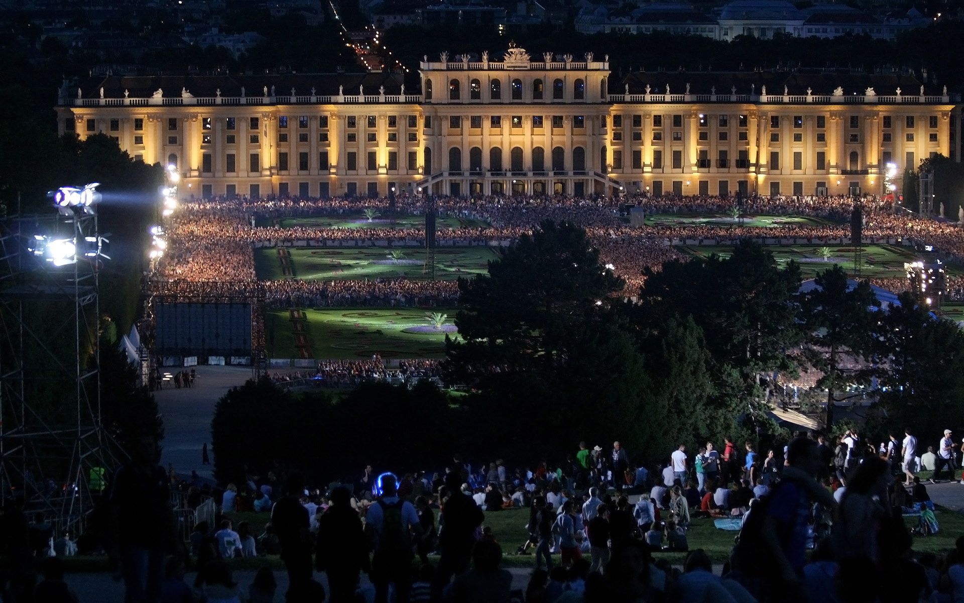 Schönbrunn Palace and Gardens, Vienna, Austria: Summer Night Concert of the Vienna Philharmonic Orchestra.